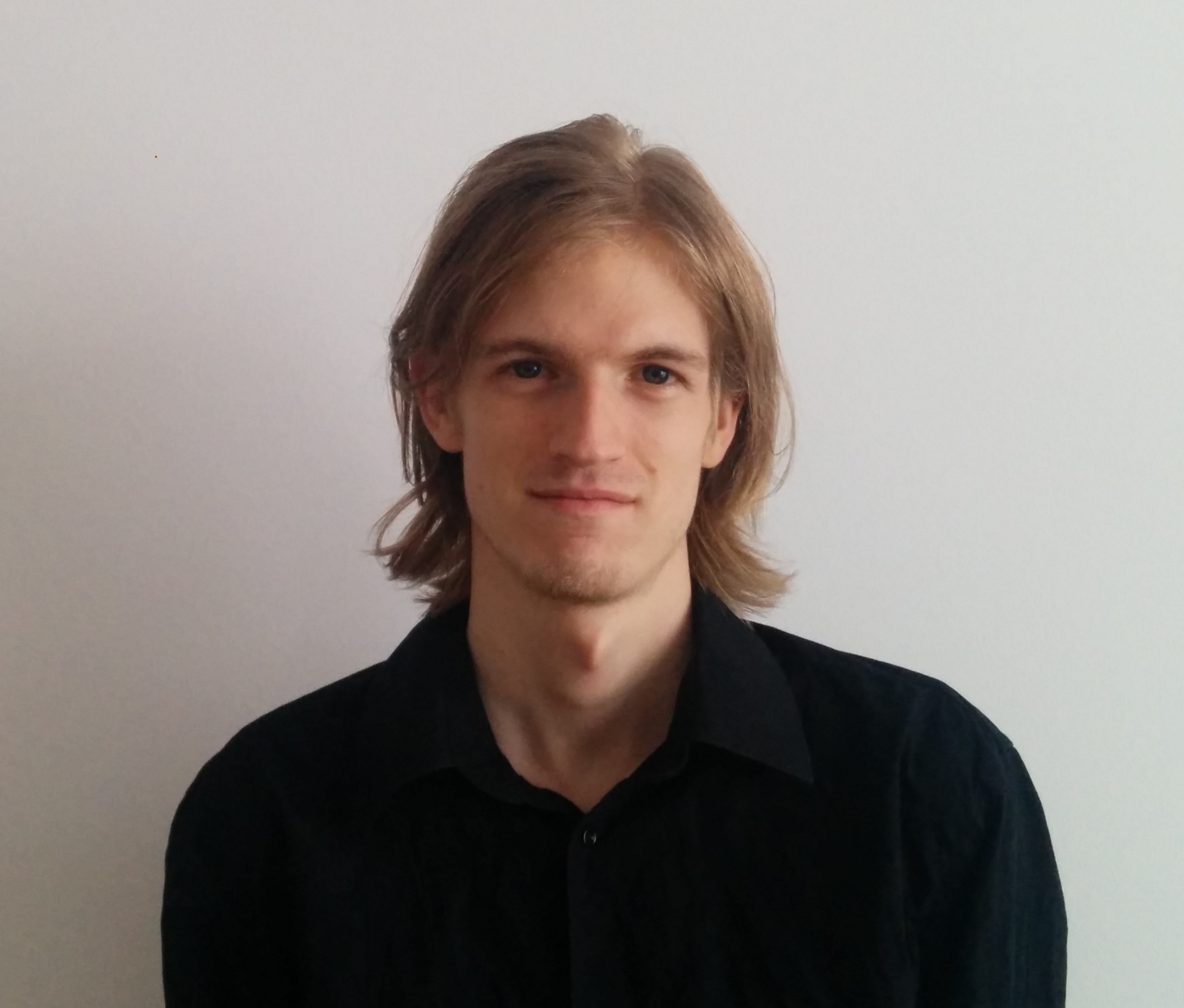 Armin Ronacher against the white wall